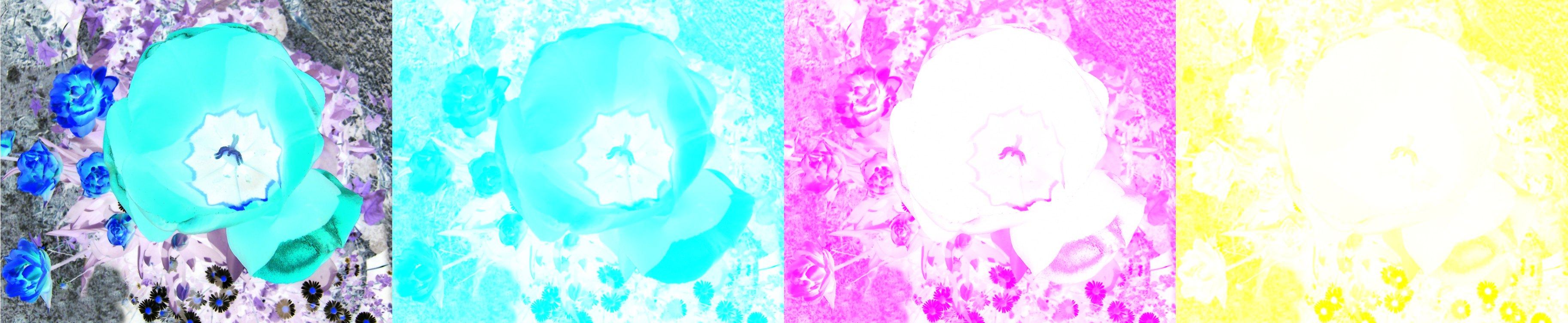 Subtractive color synthesis - CMY negatives